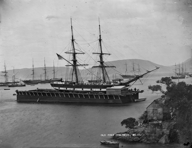 Photographer: David De Maus American brig in floating dock, Port Chalmers, 1870s Original negative Reference No. 1/1-002539-G De Maus Collection, Alexander Turnbull Library, National Library of New Zealand Find out more about this image from the Alexander Turnbull Library.